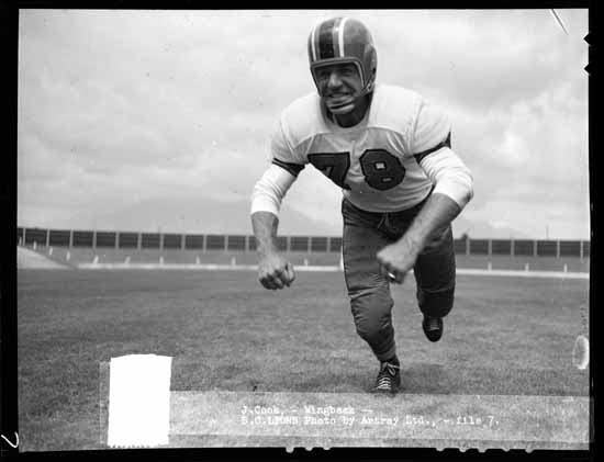 B.C. Lions football club, portraits, individual players, J.Cook VPL Accession Number: 84791F Date: August 21, 1955 Photographer / Studio: Jones, Art Content: Photo series 84791 to 84791AI Topic: Football players Portrait Stadiums Location: British Columbia - Vancouver - Hastings-Sunrise - Hastings Community Park Copyright Restrictions: Public Domain